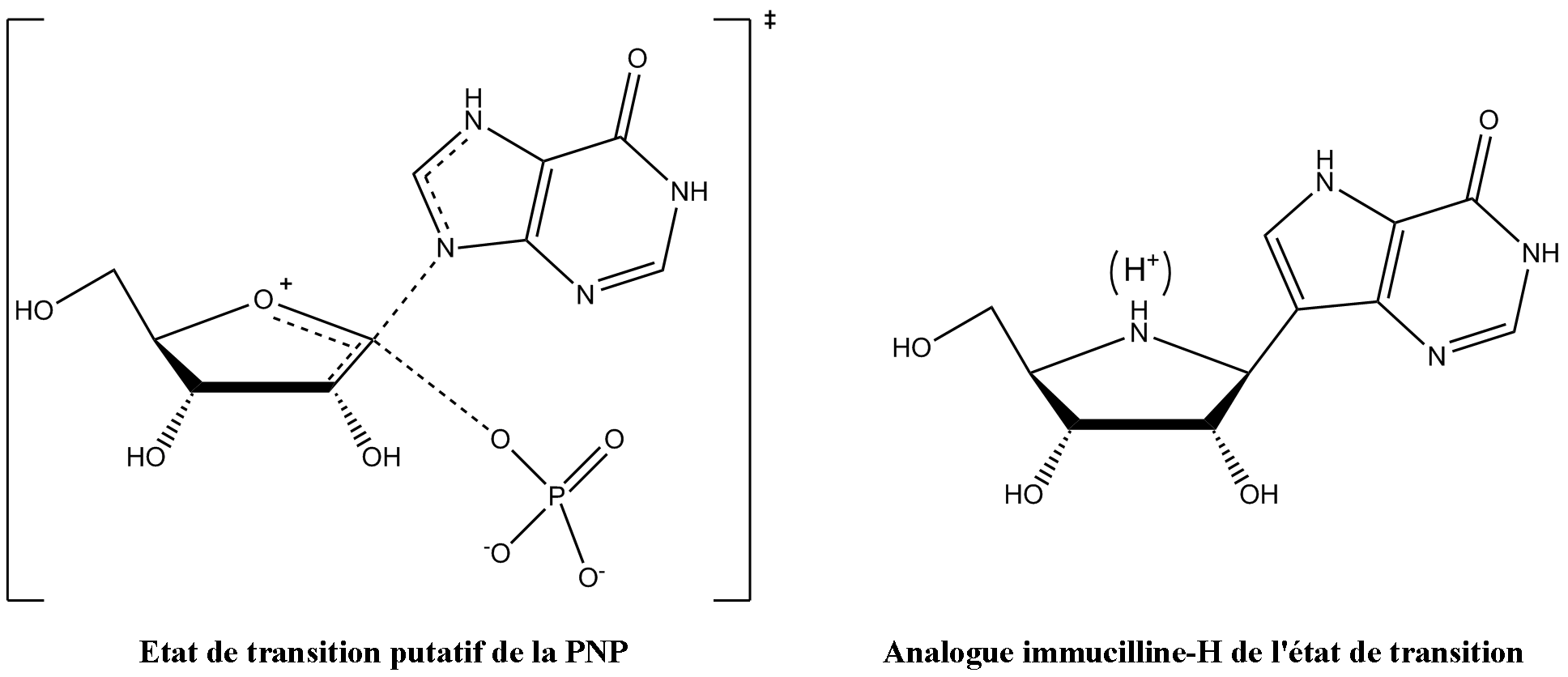 PNP putative transition state and transition state analog ImmucilinH (french caption).